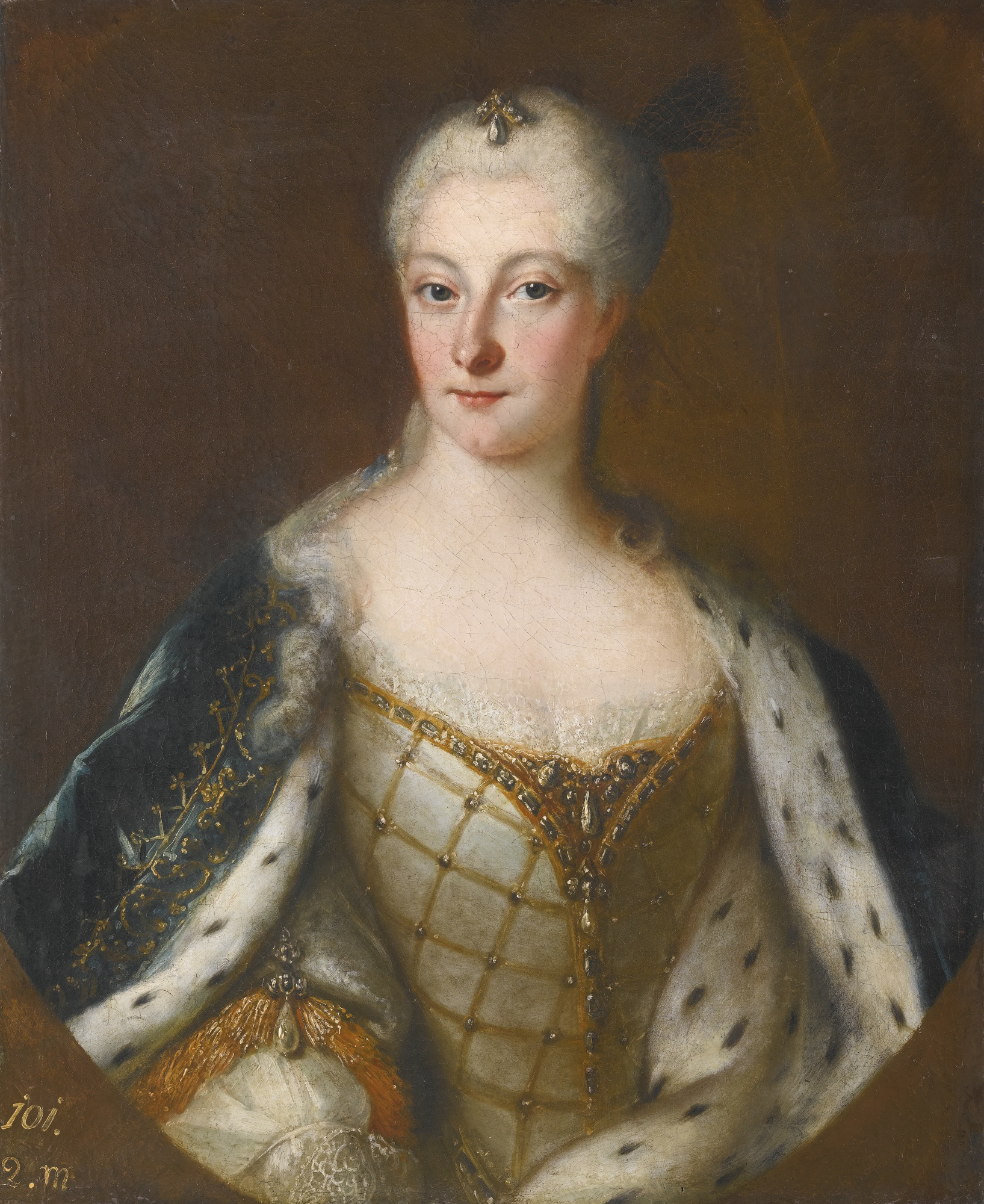 Portrait of Henrietta Maria of Brandenburg-Schwedt (1702-1782), half length, wearing an ivory silk bodice and ermine trimmed cloak